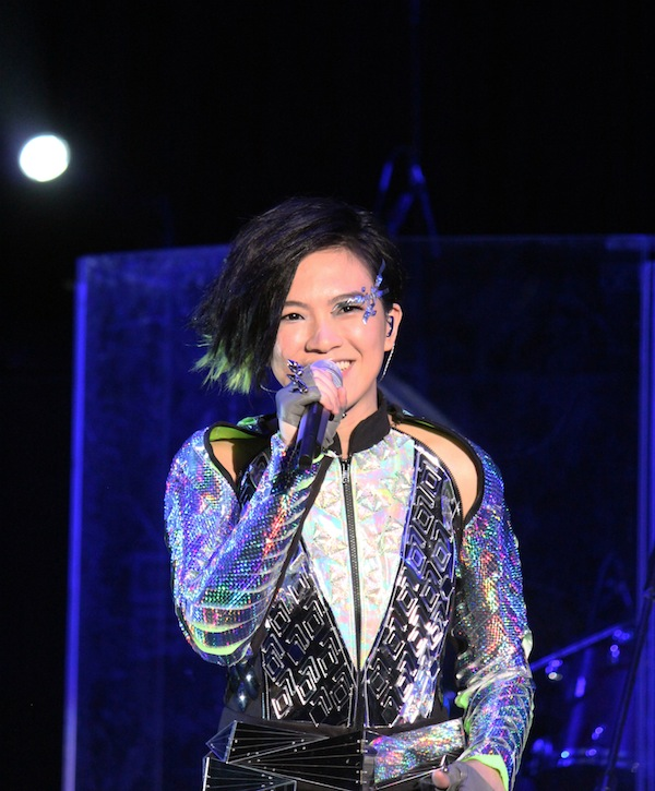 Jing Chang at I'm with You Asia Concert Tour - Taipei 2012.12.23